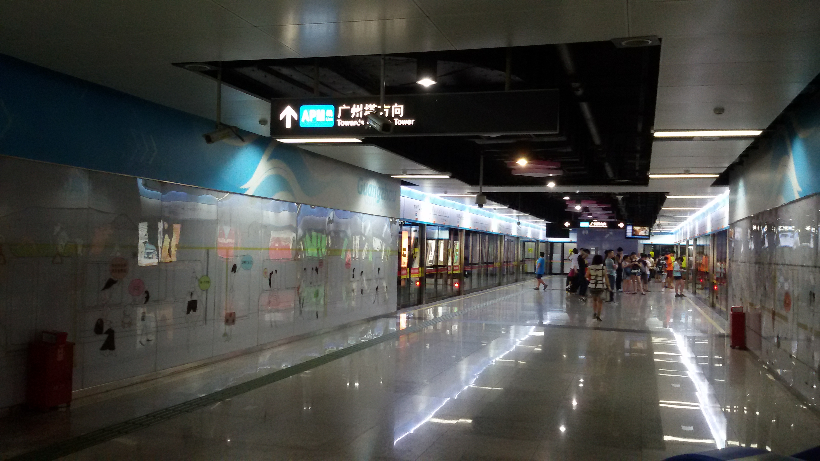 Station platform for Linhexi Station in APM Line, Guangzhou Metro. 粵語: 林和西站嘅APM綫站台